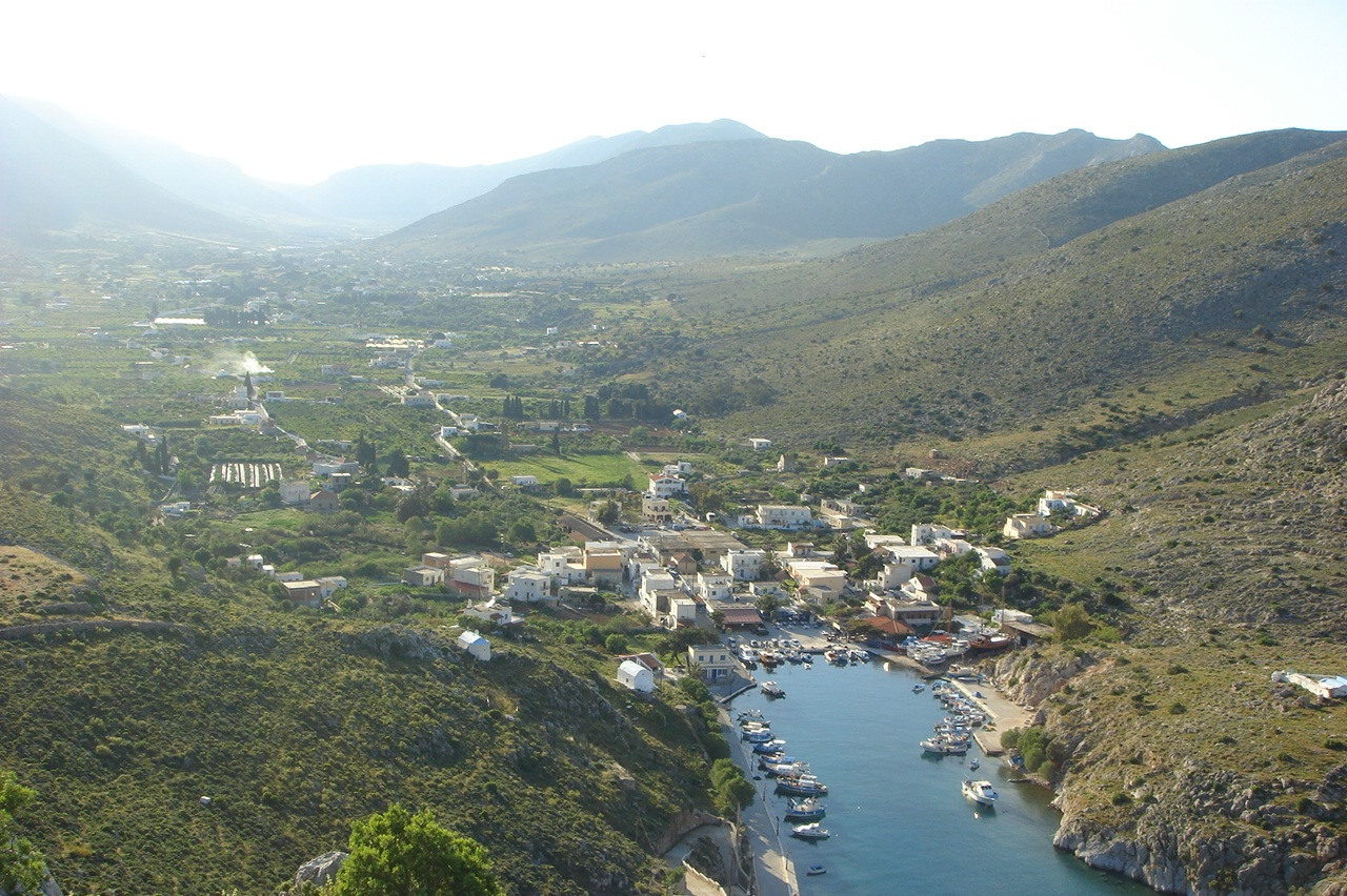 Vathys valley, Kalymnos